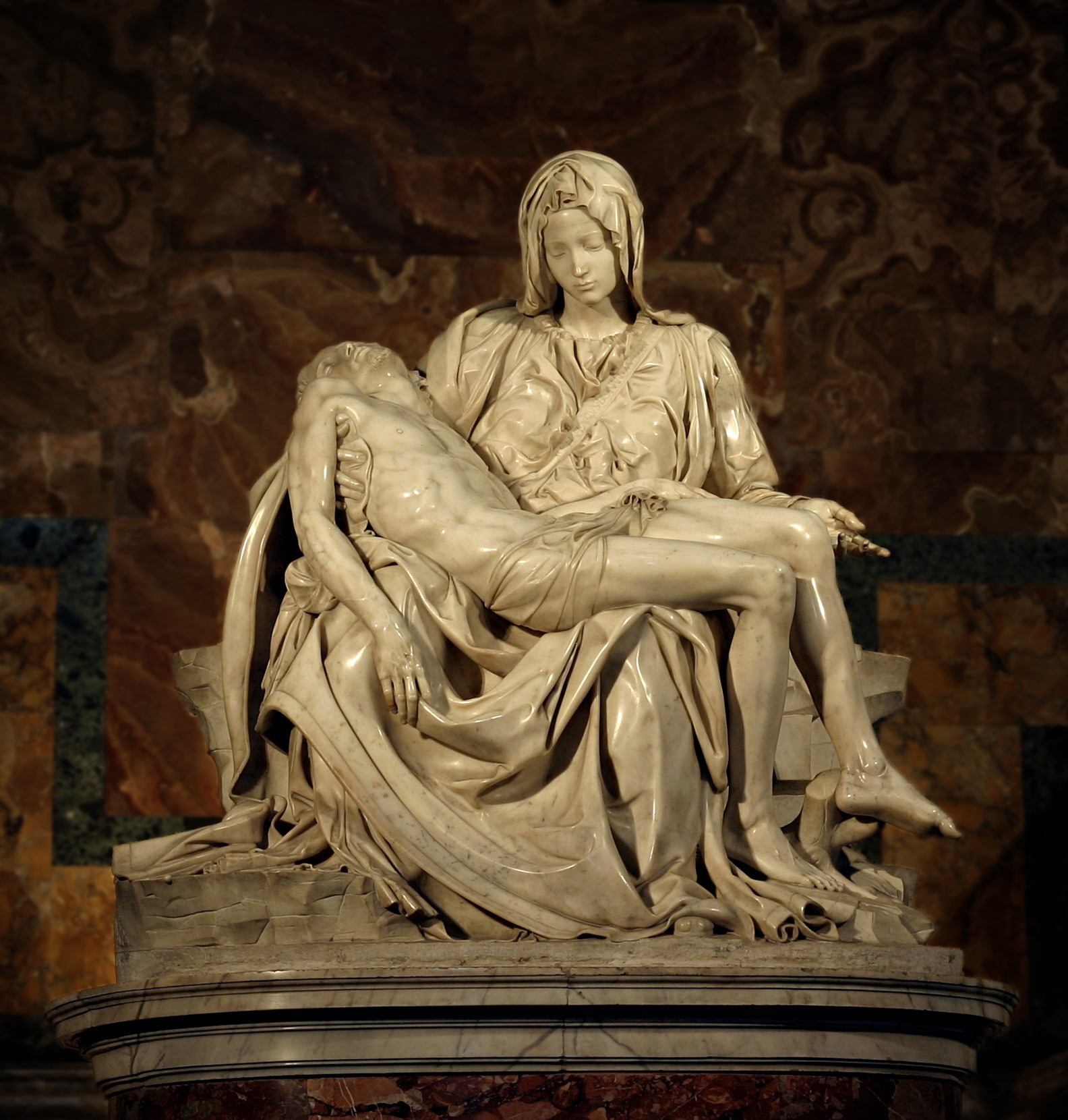 Michelangelo's Pietà in St. Peter's Basilica in the Vatican.